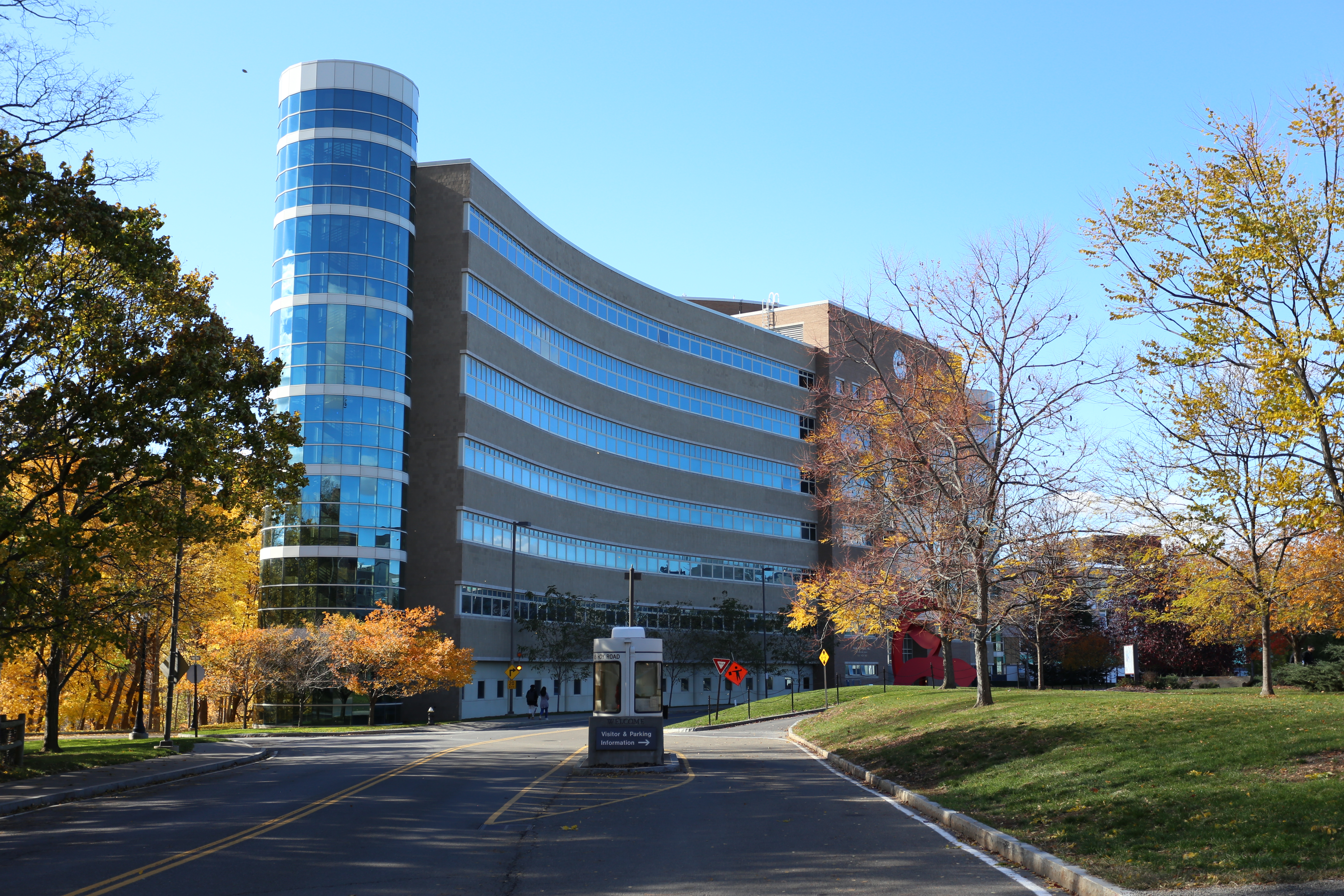 Day photo